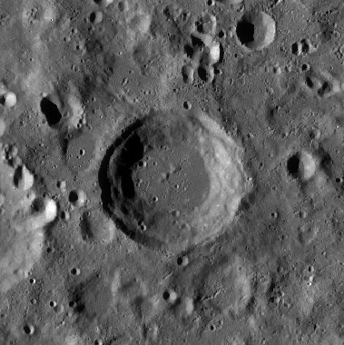 Timiryazev far side lunar crater - LRO WAC image.